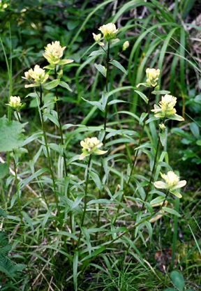 Paintbrush (castille ja spp.) is a member of the figwort family and is likely one of the best-known and most widespread wildflowers in the Canadian Rockies. It grows well in meadows from montane levels to above timberline. Most commonly orange-red to red in color, it also occurs in yellow and purple variants. Two features distinguish it from other typical wildflowers. It is the bracts of this wildflower and not the petals (which are green) which bear the color. As well, paintbrush is a parasitic plant, enmeshing its roots with those of other plants and stealing their nutrients. 2004 D. Windrim Captioned As {}